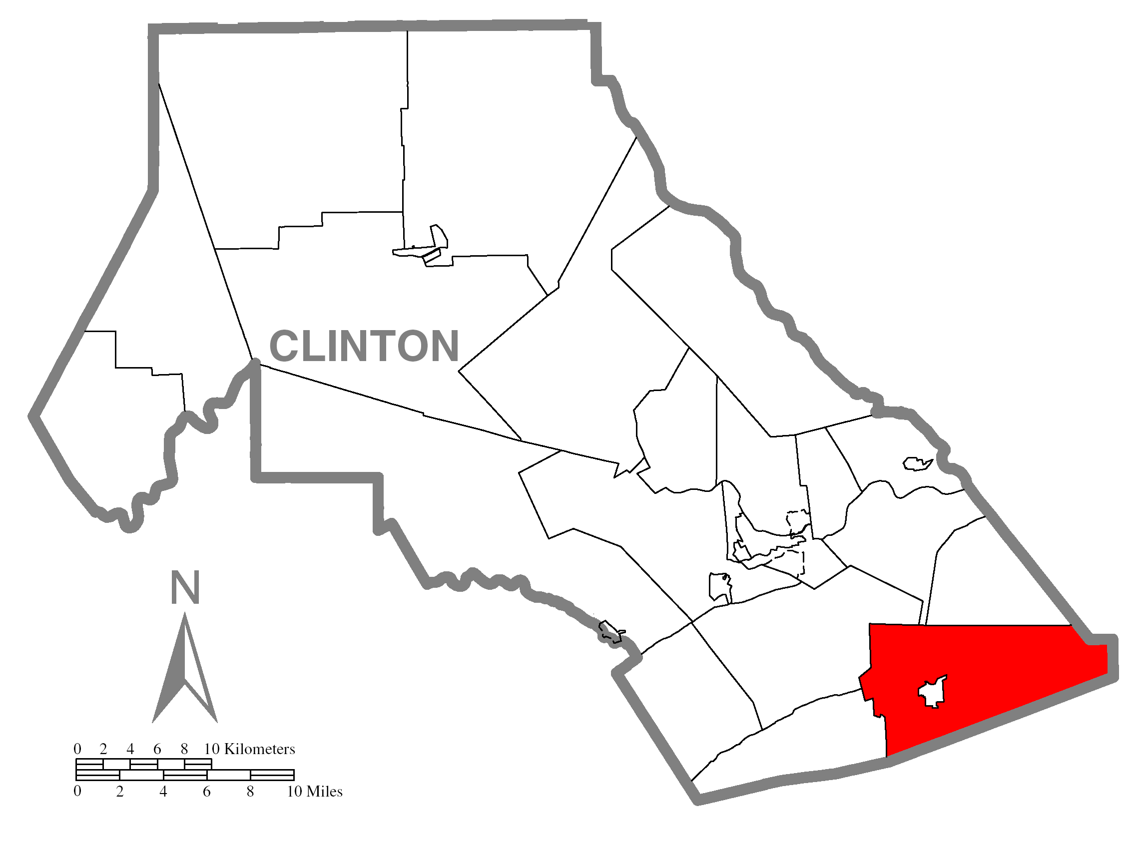 A map of Clinton County showing Greene Township, Pennsylvania (alternate) highlighted on the map.